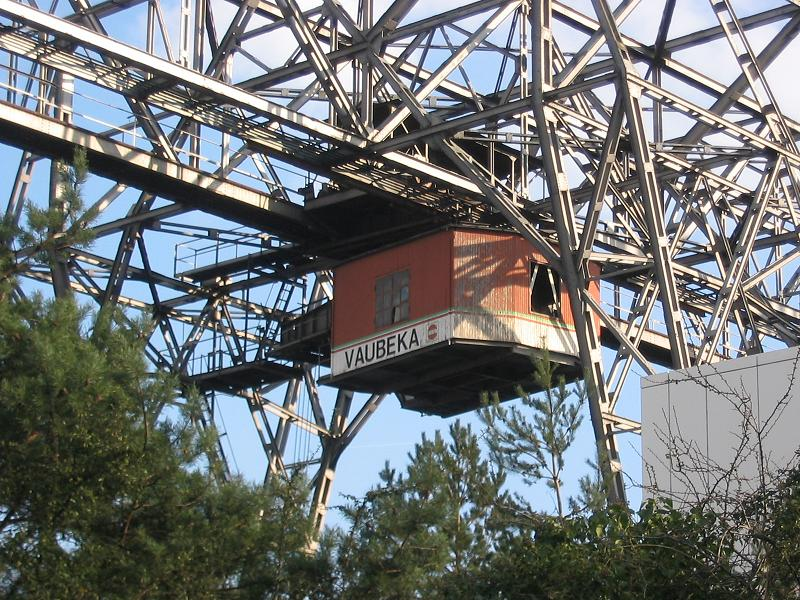 Listed VAUBEKA-Portainer, built in 1935, at the Teilestraße and the Teltowkanal in Berlin-Tempelhof.